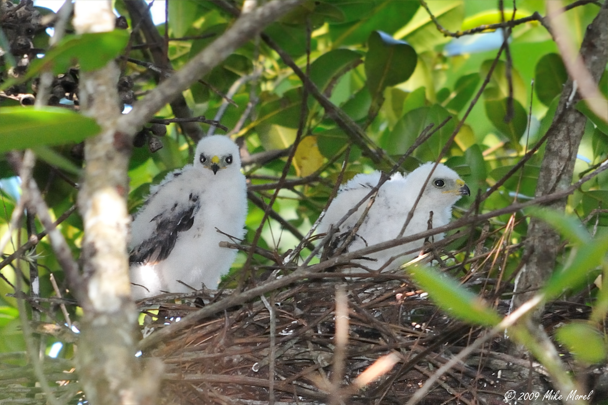 Puerto Rican sharp-shinned hawk Common name in